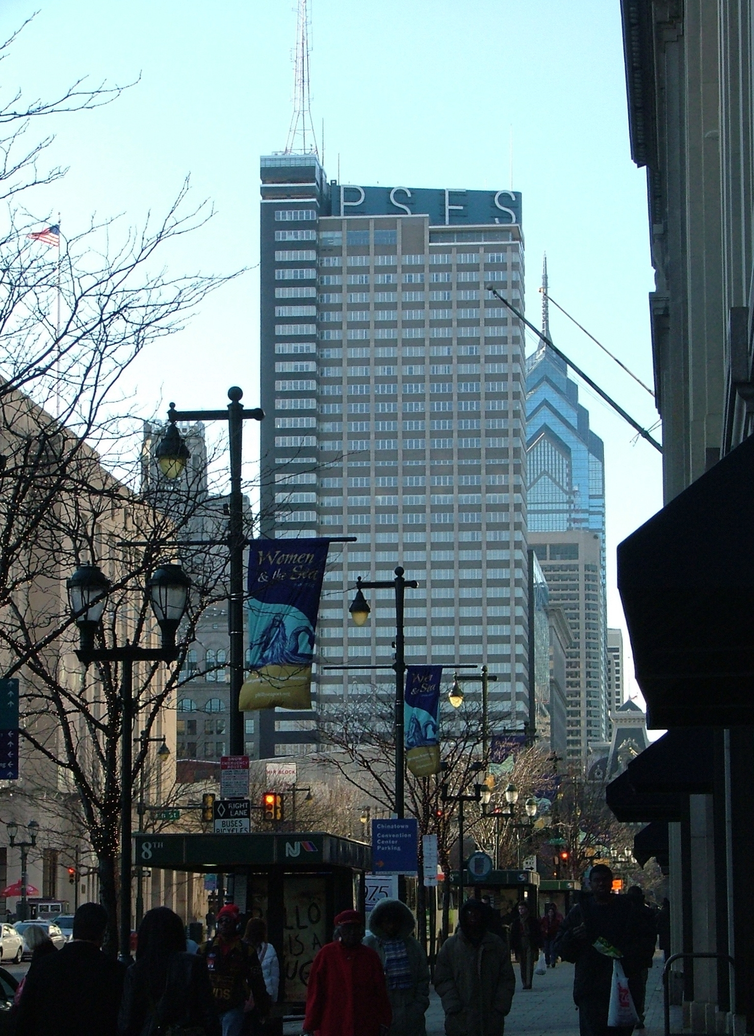 Photograph taken 24 December 2006 by Peter Clericuzio, using a Fuji FinePix S5000 camera. Permission granted for use as per the accompanying license.